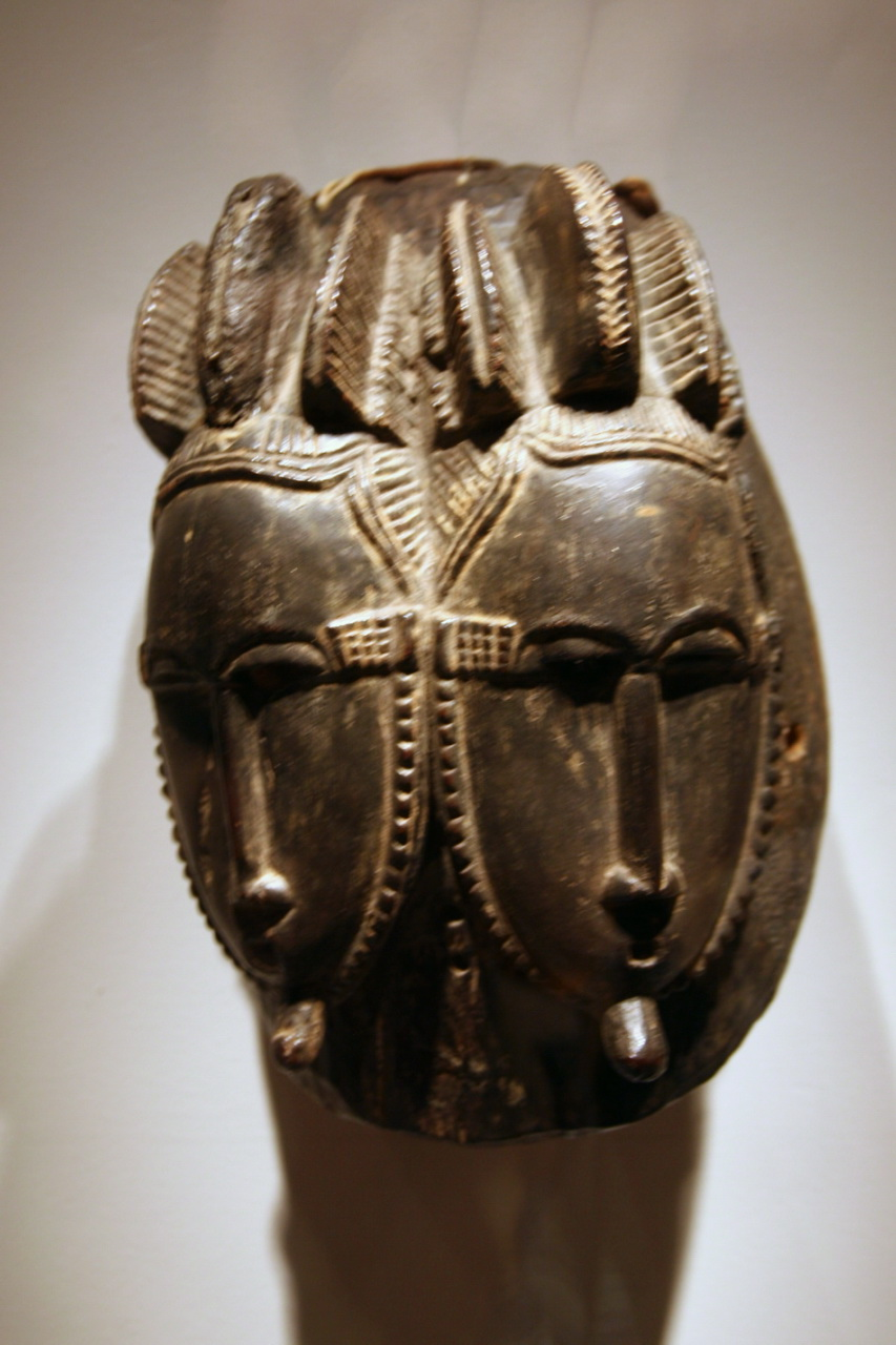 Mask, Baule peoples, Côte d'Ivoire, Late 19th to early 20th century, Wood, cloth, string Baule masks depicting beautiful women (or heroic men), well-known persons, stock characters and domestic animals promote Baule concepts of ideal beauty and values. Rarer than the single face mask is the double mask portraying twins. Twins, whether identical (depicted here) or fraternal, are believed to be good luck and to share a soul. The double mask can appear with a portrait mask, which may be accompanied by the living twins or the surviving single twin, toward the end of a masquerade. (National Museum of African Art)